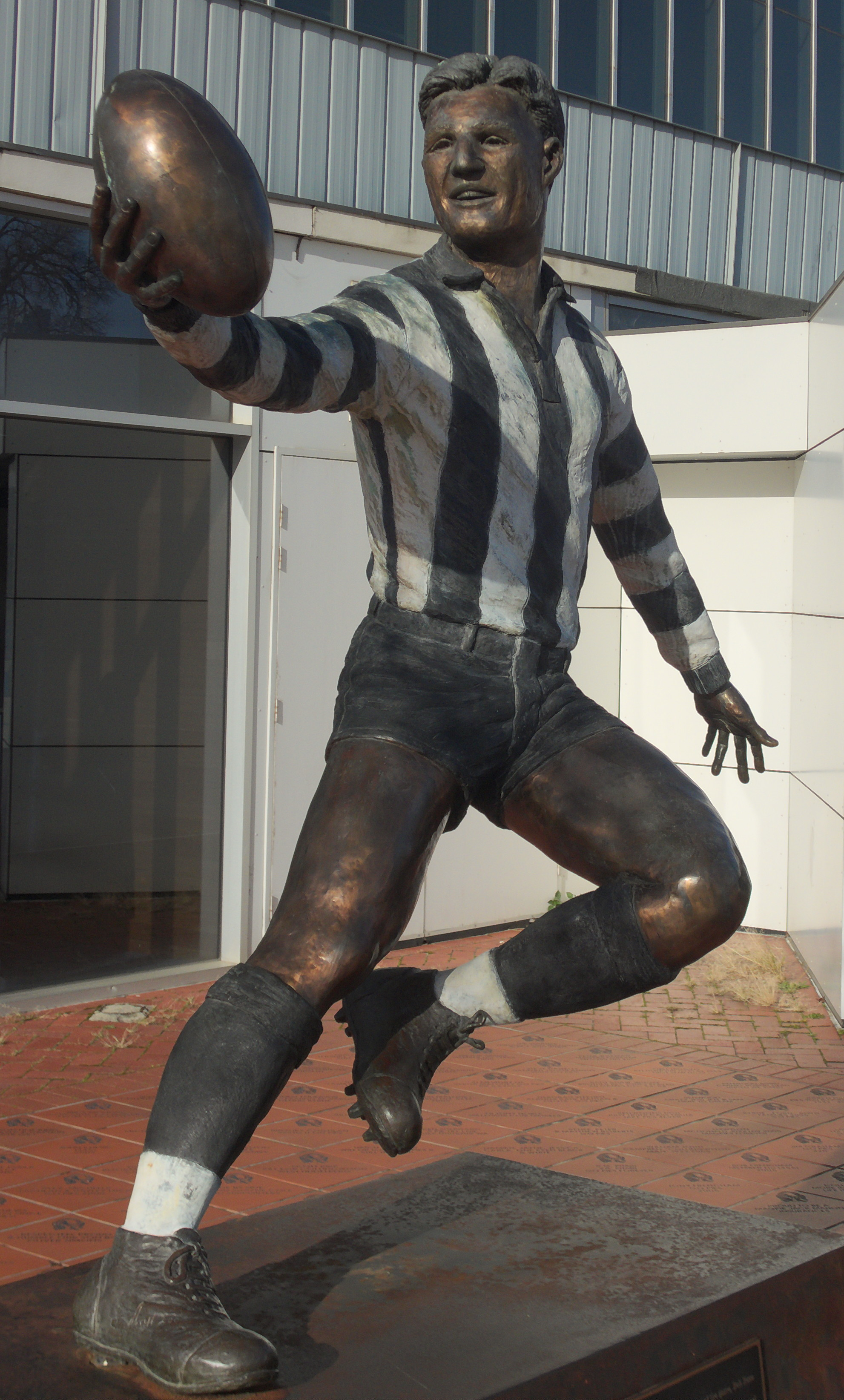 Statue of Bob Rose outside the Holden Centre in Olympic Boulevard, Melbourne.